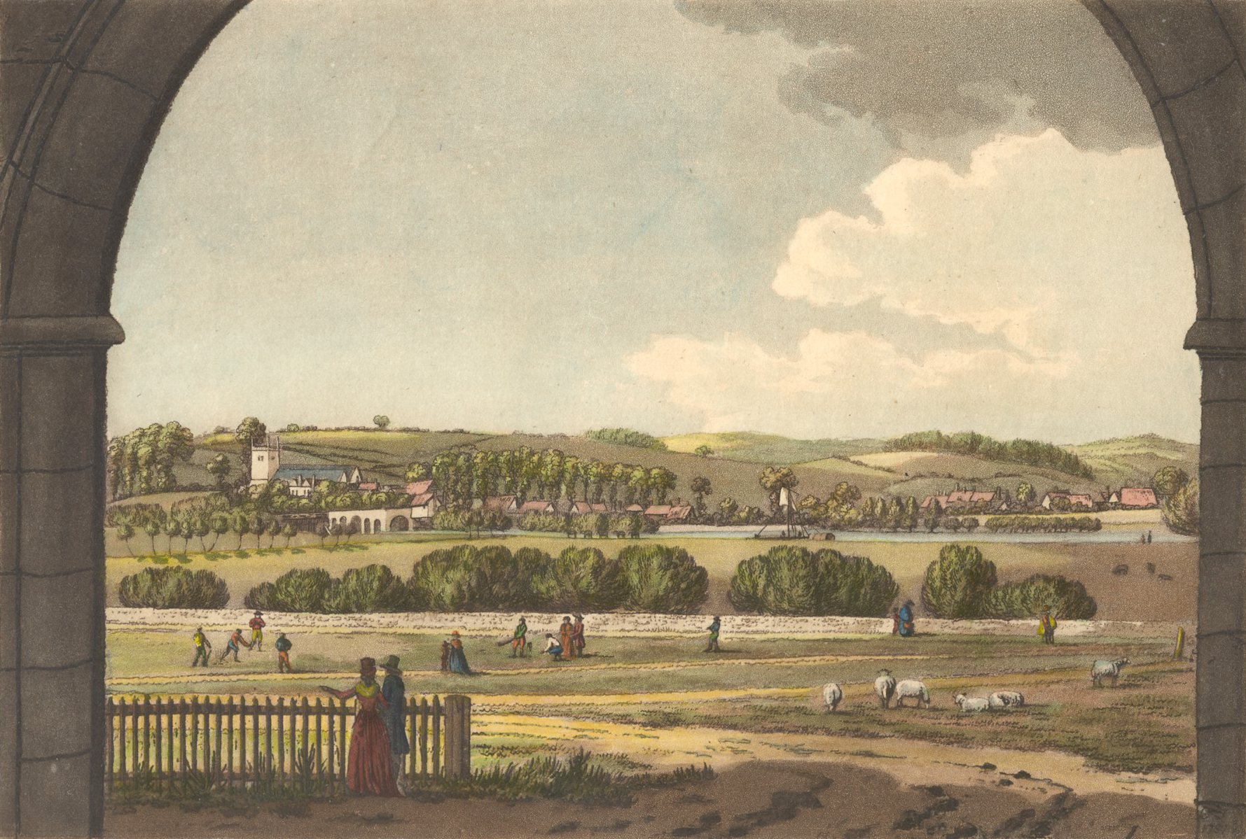 View of Caversham through the inner gateway of Reading Abbey, 1791, showing the bridge, the church, a sailing-barge on the river, and a game of cricket in the foreground. 18th century : print, entitled "View of Caversham through the Gateway," drawn and engraved by Charles Tomkins. No. 8 of his "Views of Reading Abbey." There is a black and white version at Dynix 1205198.